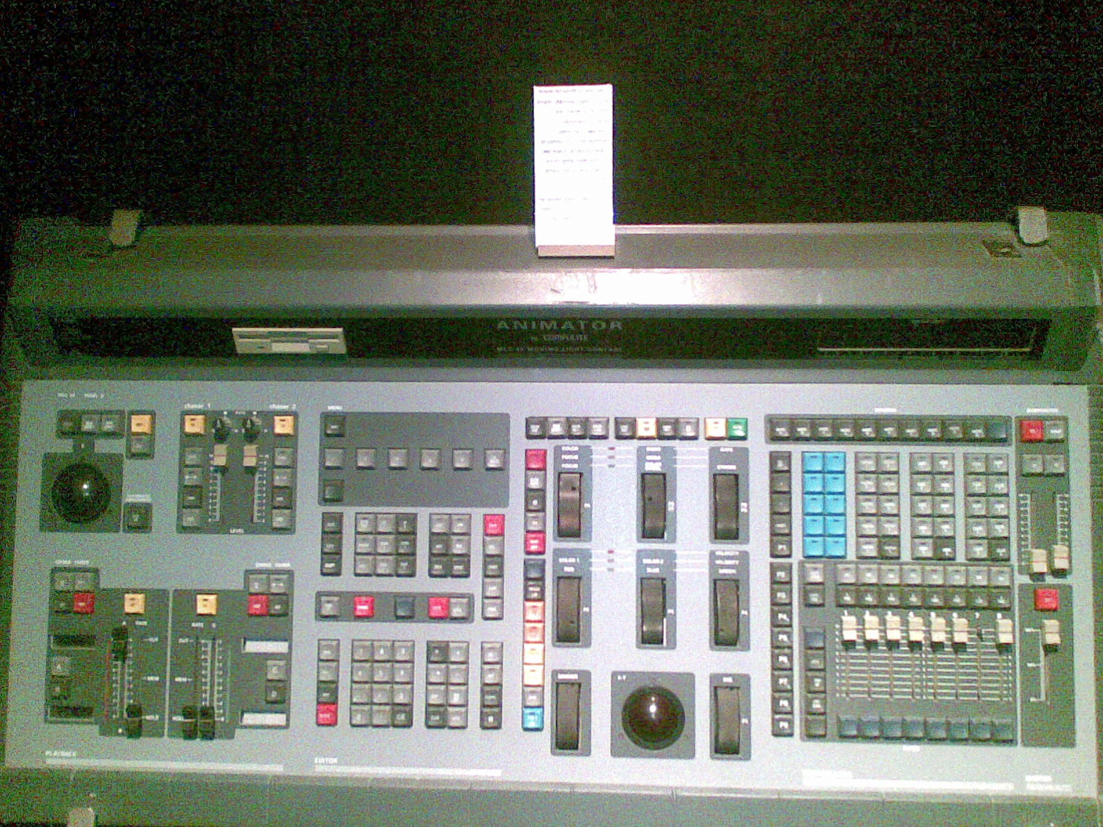 The Compulite Animator on display at the Compulite-Danor Stage Lighting Museum, the curator of the museum Dan Redler gave me permission to take pictures on condition that the museum and his name be credited. The Compulite Animator was released in 1990, it was (one of?) the first lighting control console to combine generic automated light and dimmer control in one package, it was also one of the earliest consoles to use DMX512 to control automated lights.